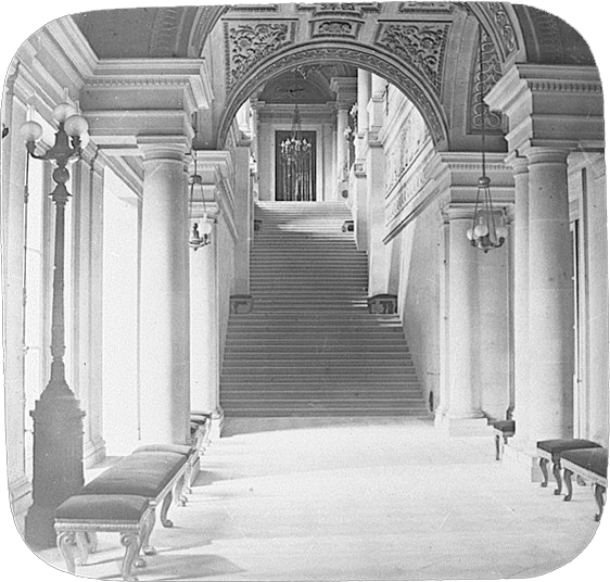 Grand Escalier (bas) du Palais des Tuileries